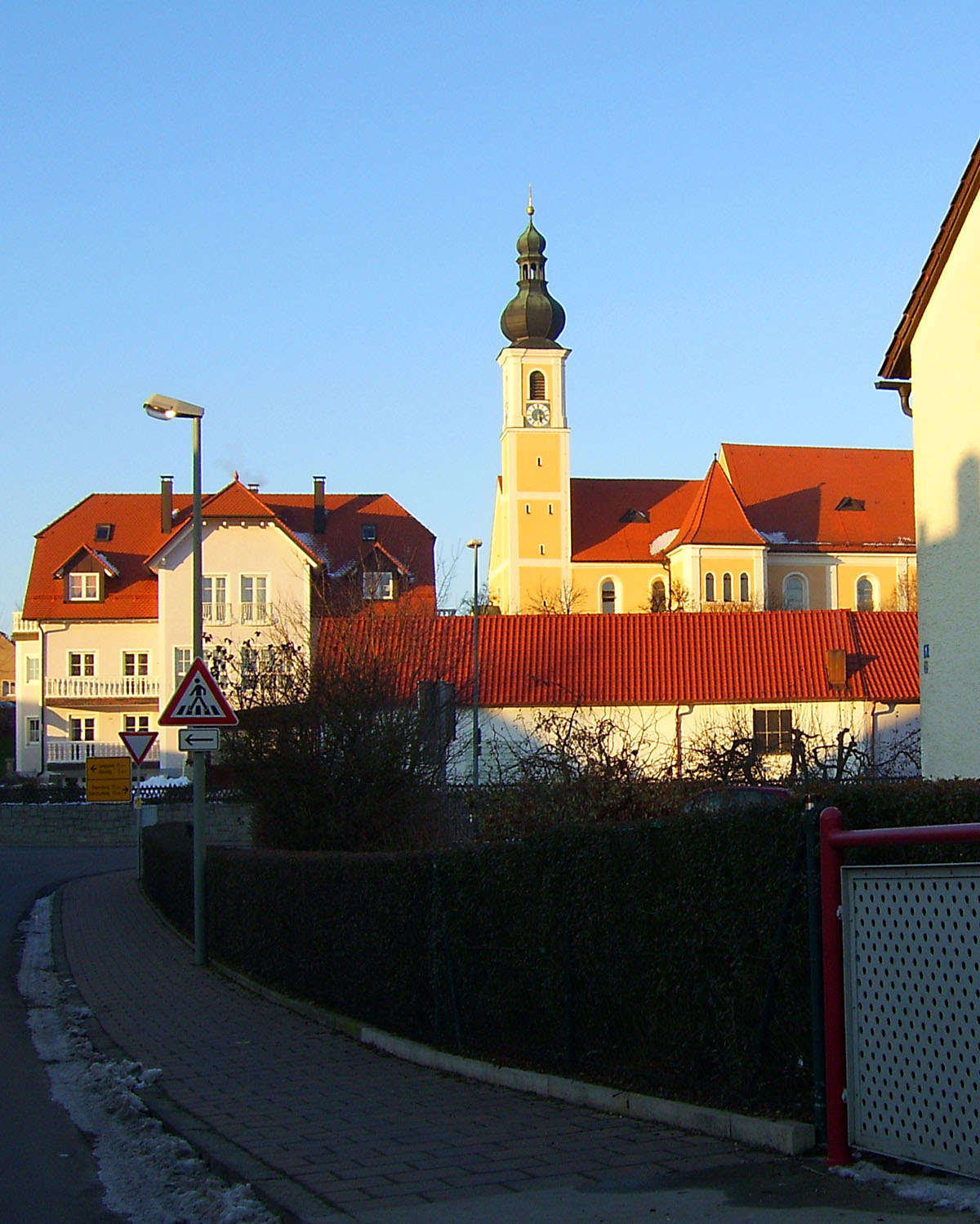 The church of Thalmassing, a village near Regensburg.